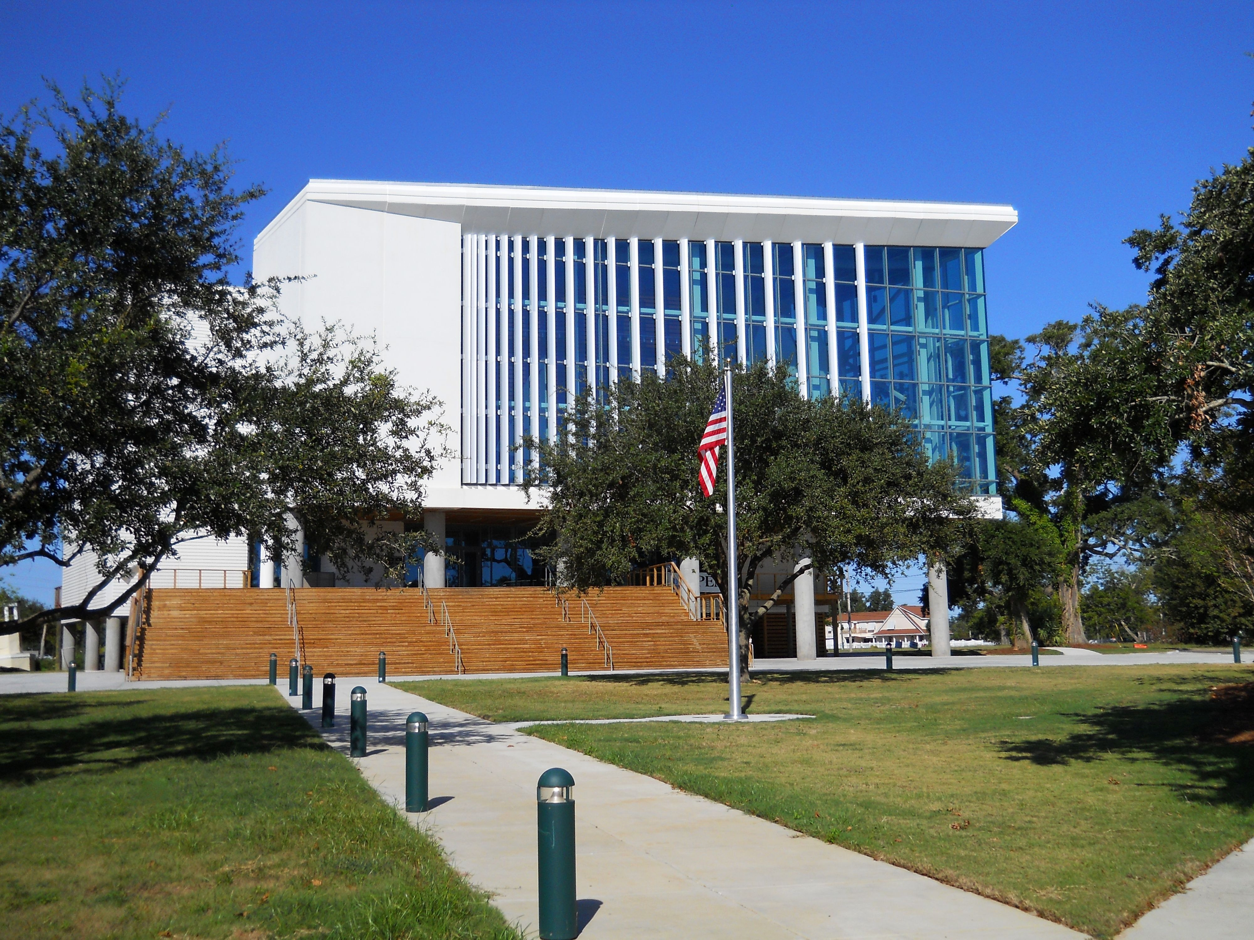 Maritime and Seafood Industry Museum located in Biloxi, Mississippi, USA